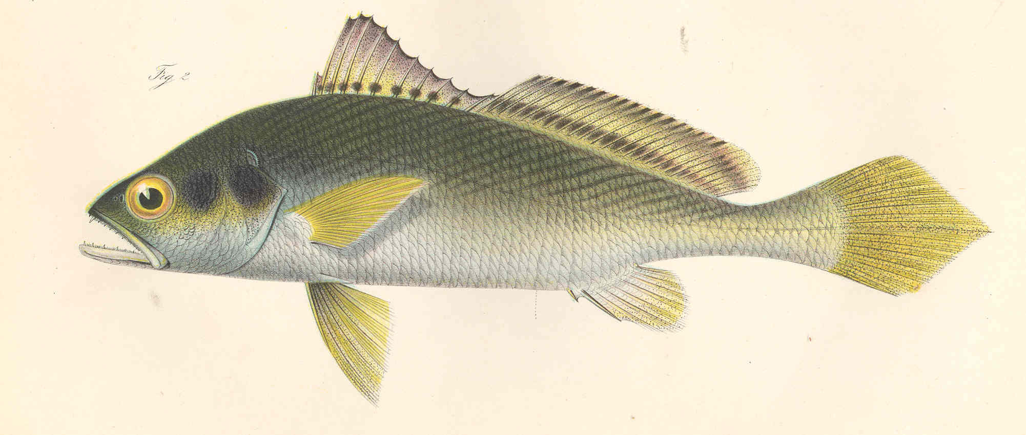 Subject: Pseudotolithus Tag: Fish